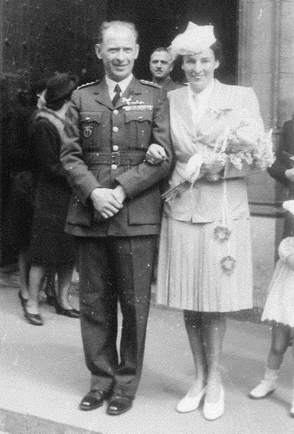 Wedding of František Taiber and Emilie Vosyková